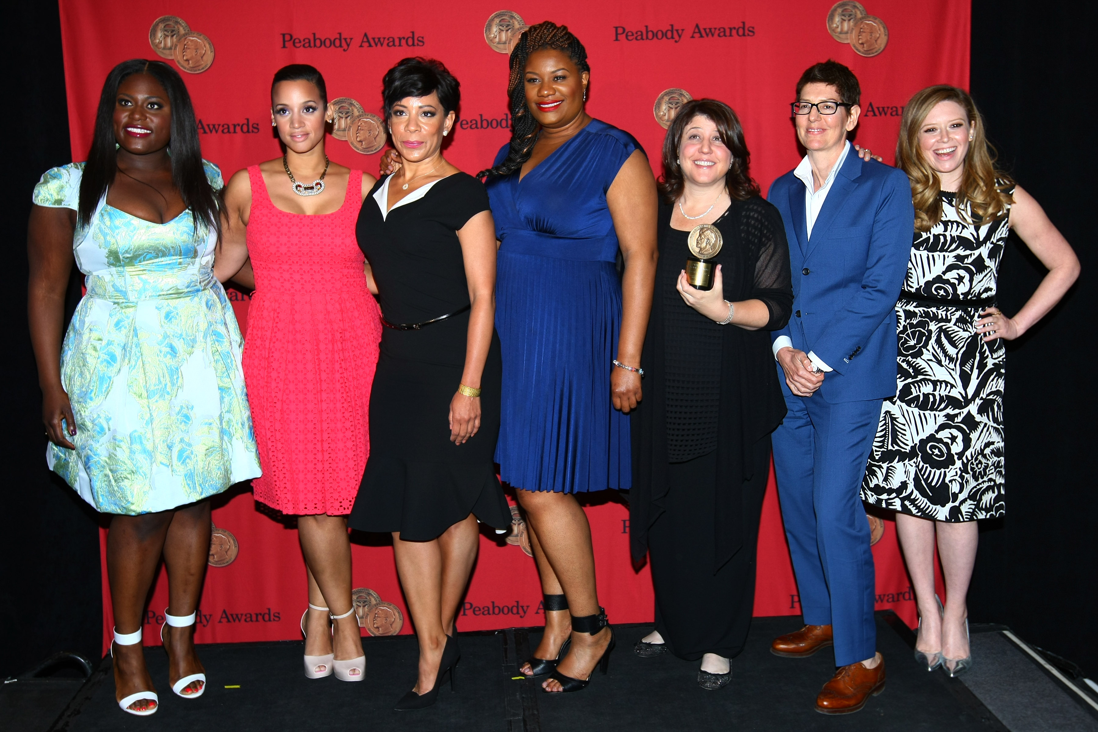 Danielle Brooks, Dascha Polanco, Selenis Leyva, Adrienne C. Moore, Lisa Vinnecour, Neri Kyle Tannenbaum, and Natasha Lyonne from Orange is the New Black pose with the Peabody Award.